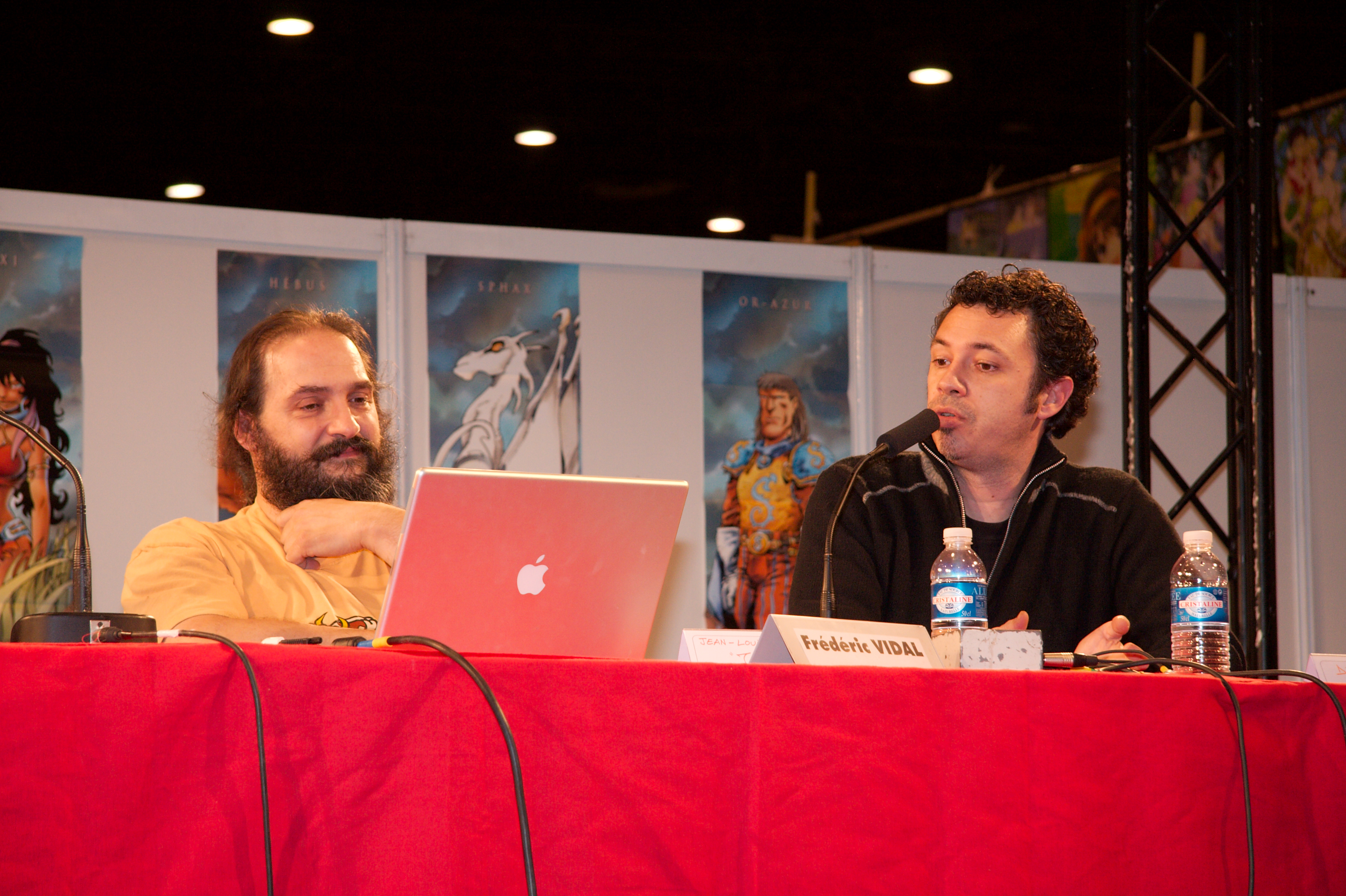 Conference with Claude Guth, Ciro Tota, Christophe Arleston, Jean-Louis Mourier and Didier Tarquin at Chibi Japan Expo 2007 (Paris, France).